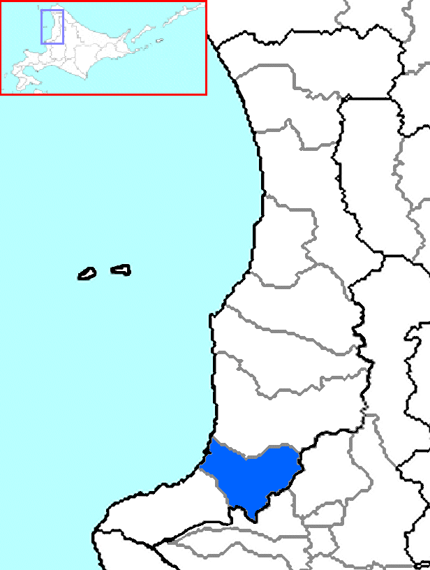 The location of Rumoi in Rumoi Subprefecture, Hokkaido Prefecture, Japan.